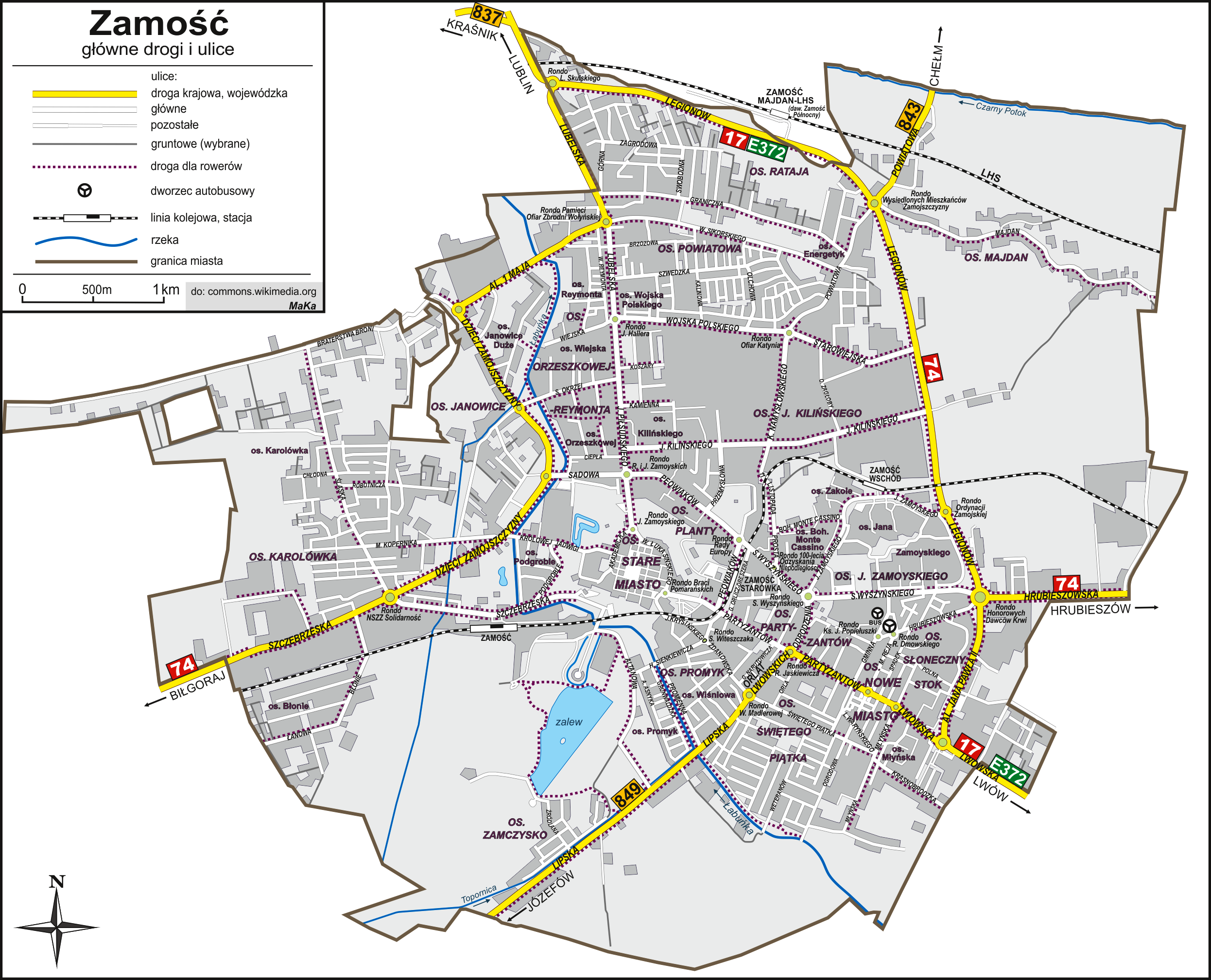 Zamość plan with main roads and streets